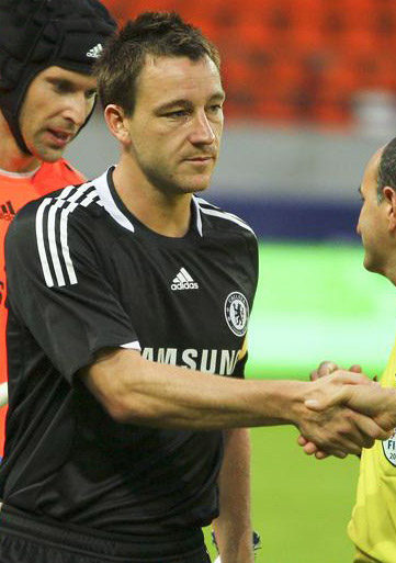 John Terry